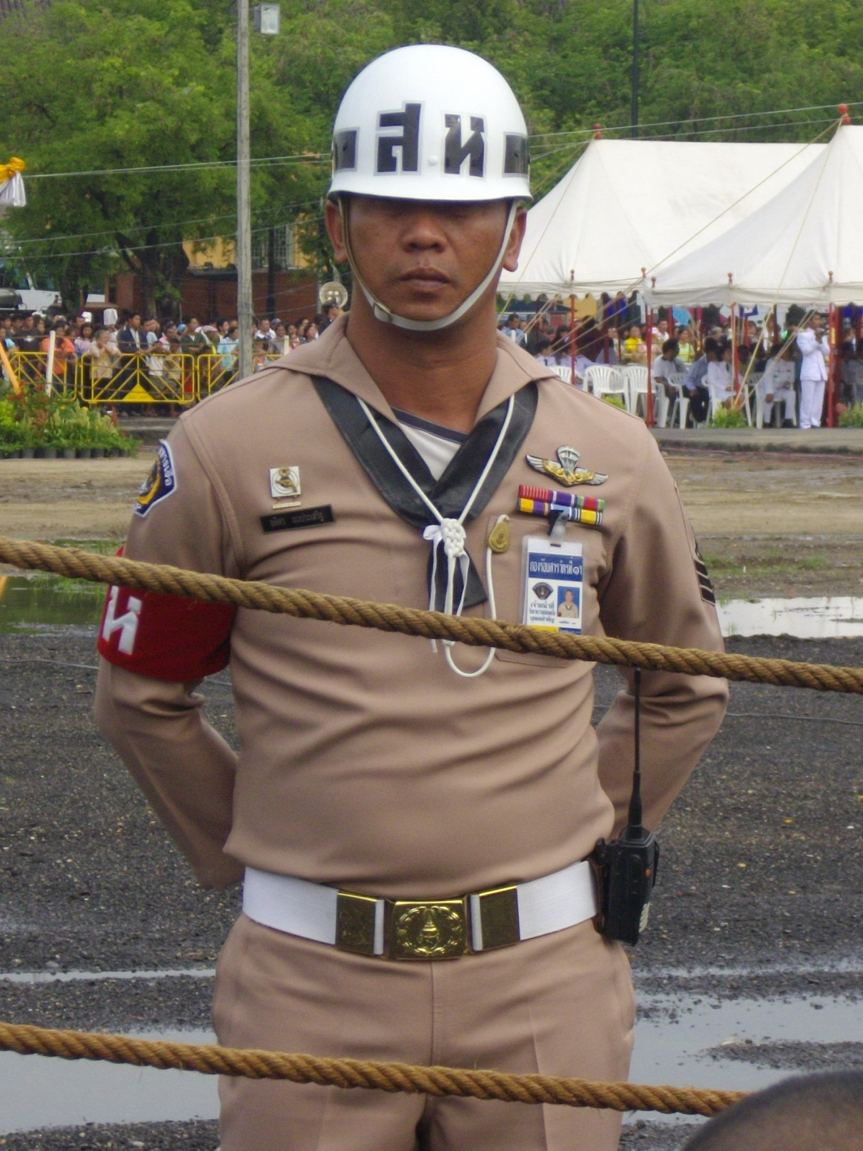 A Royal Thai Navy military police guards for the 2009 Royal Ploughing Ceremony at Sanam Luang, Bangkok, Thailand.